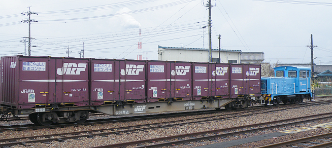 Type B 20t switcher made by Kyosan kogyo at Minami-Yokkaichi Sta., Japan.